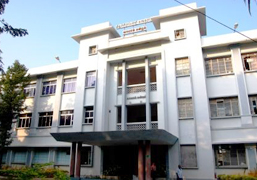 The Main Office Building of the City Corporation.